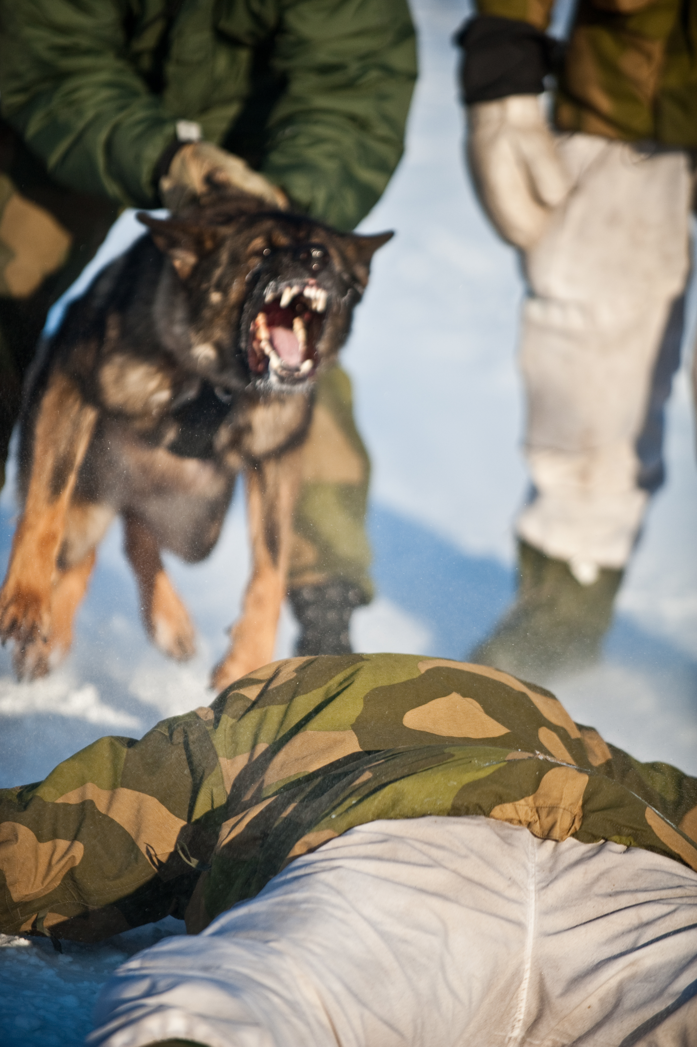 GSV (34 of 46)